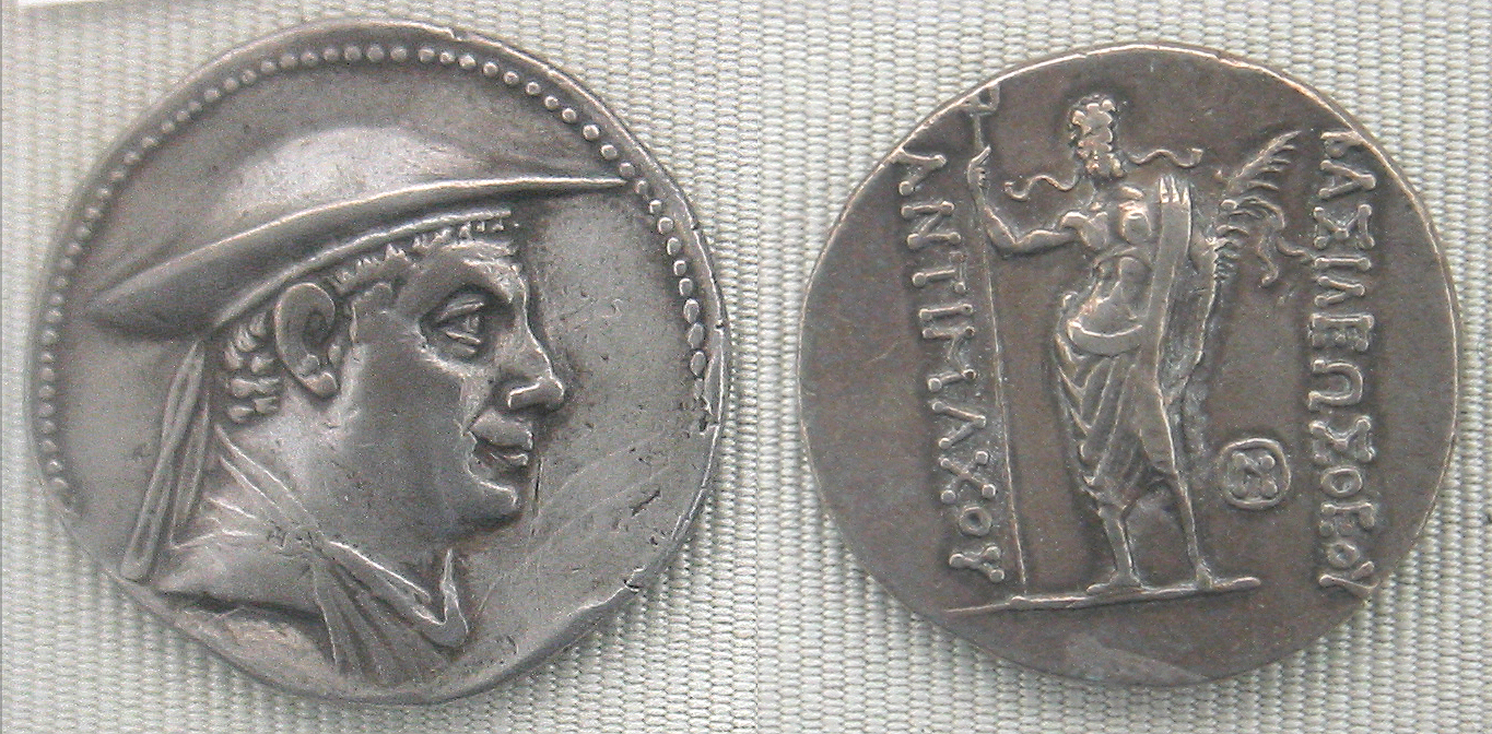 Coin of Antimachus. Cabinet des Medailles, Paris. Personal photograph 2006.